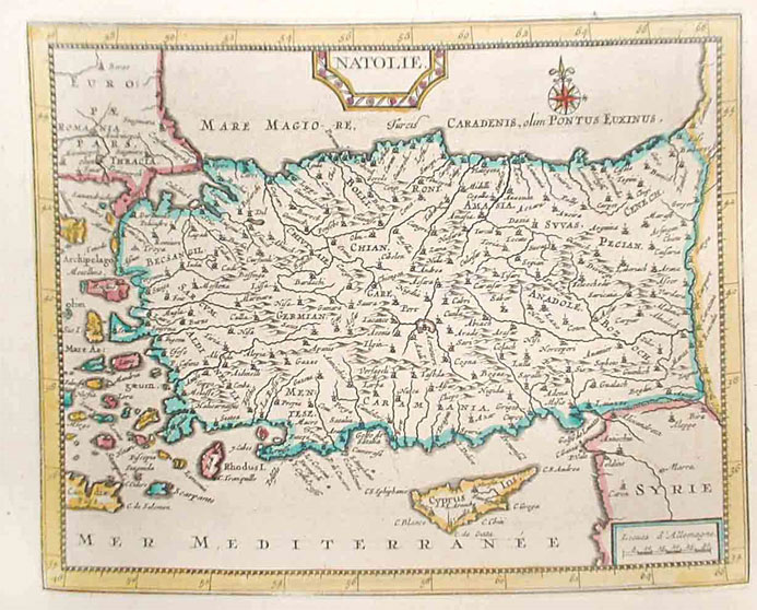 Map of Turkey and Cyprus, published in 1719 by the Dutch Printer Pieter van der Aa.